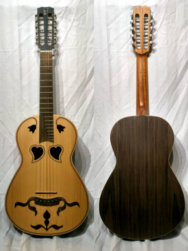 Picture of Musical instrument from the website Creative Commons Attribution Share-alike license (CC-BY-SA